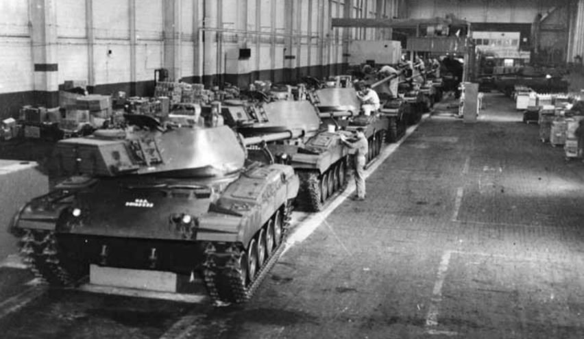 Newly manufactured hulls of M41 light tanks on an assembly line in Cleveland Tank Plant. The Cadillac factory where they were manufactured from 1951 to 1954